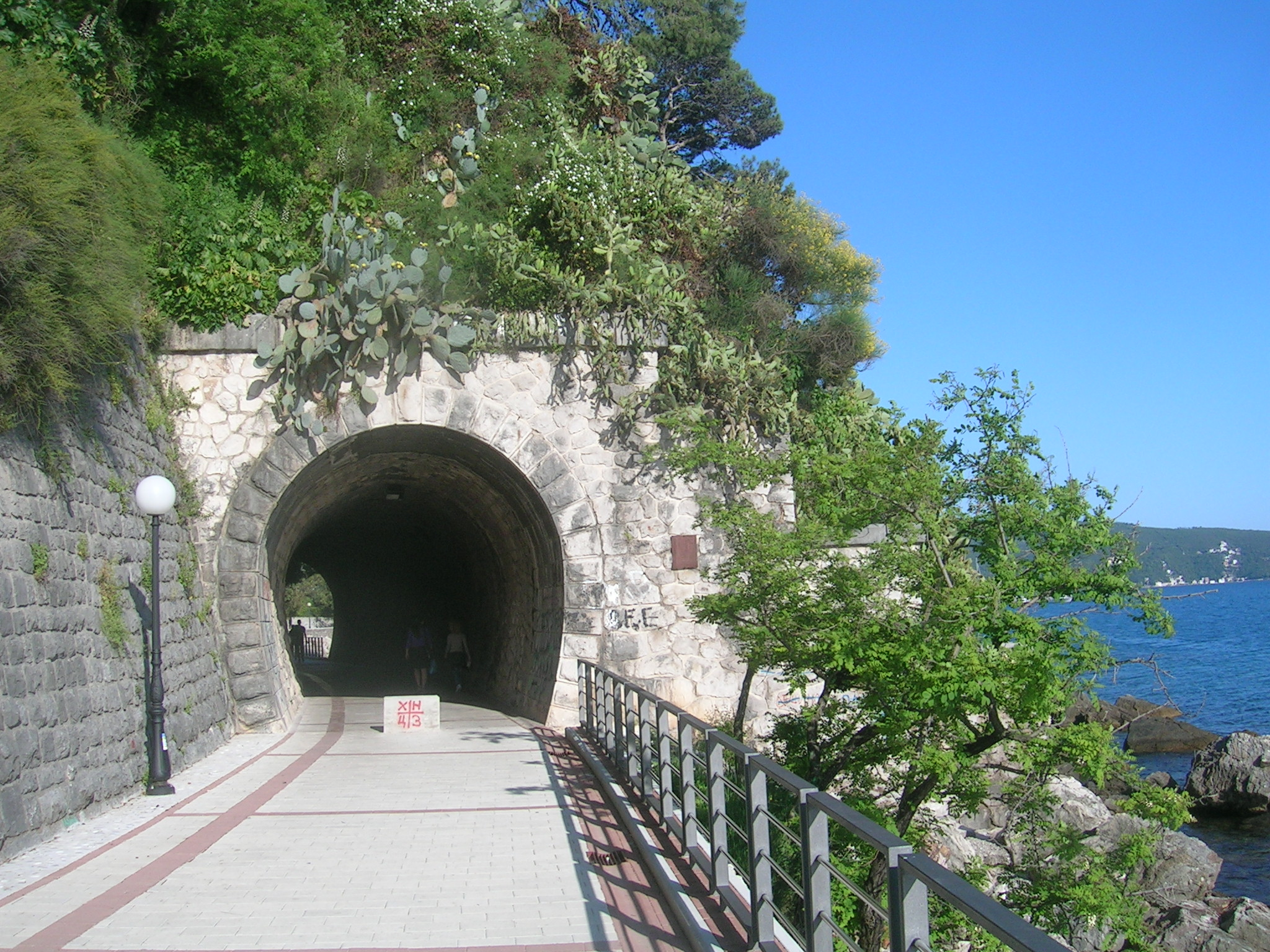 a section of former narrow gauge Čapljina–Zelenika railway line in Herceg Novi, now being a walkway